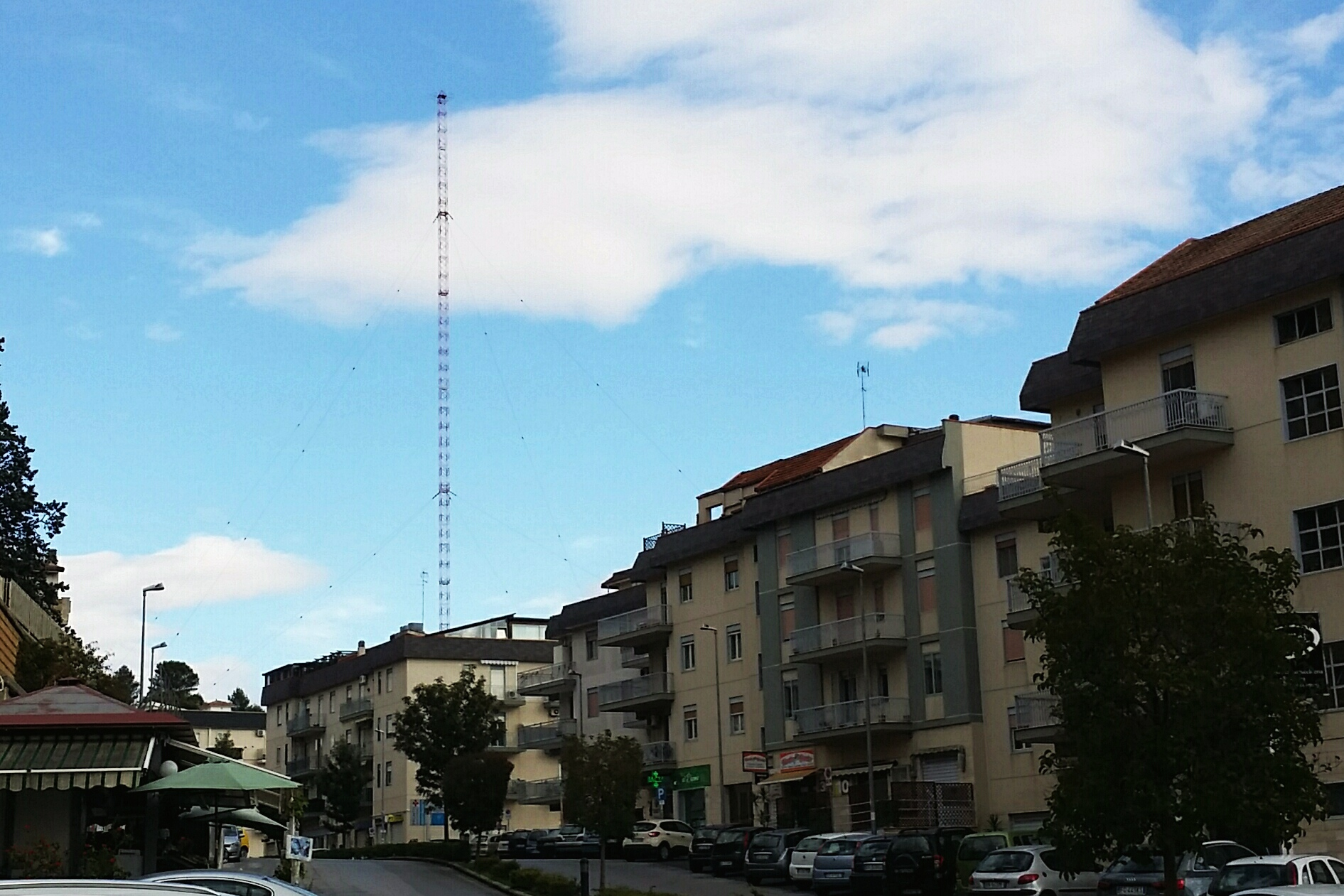 Antenna Rai of Caltanissetta, Italy seen from F. Paladini street